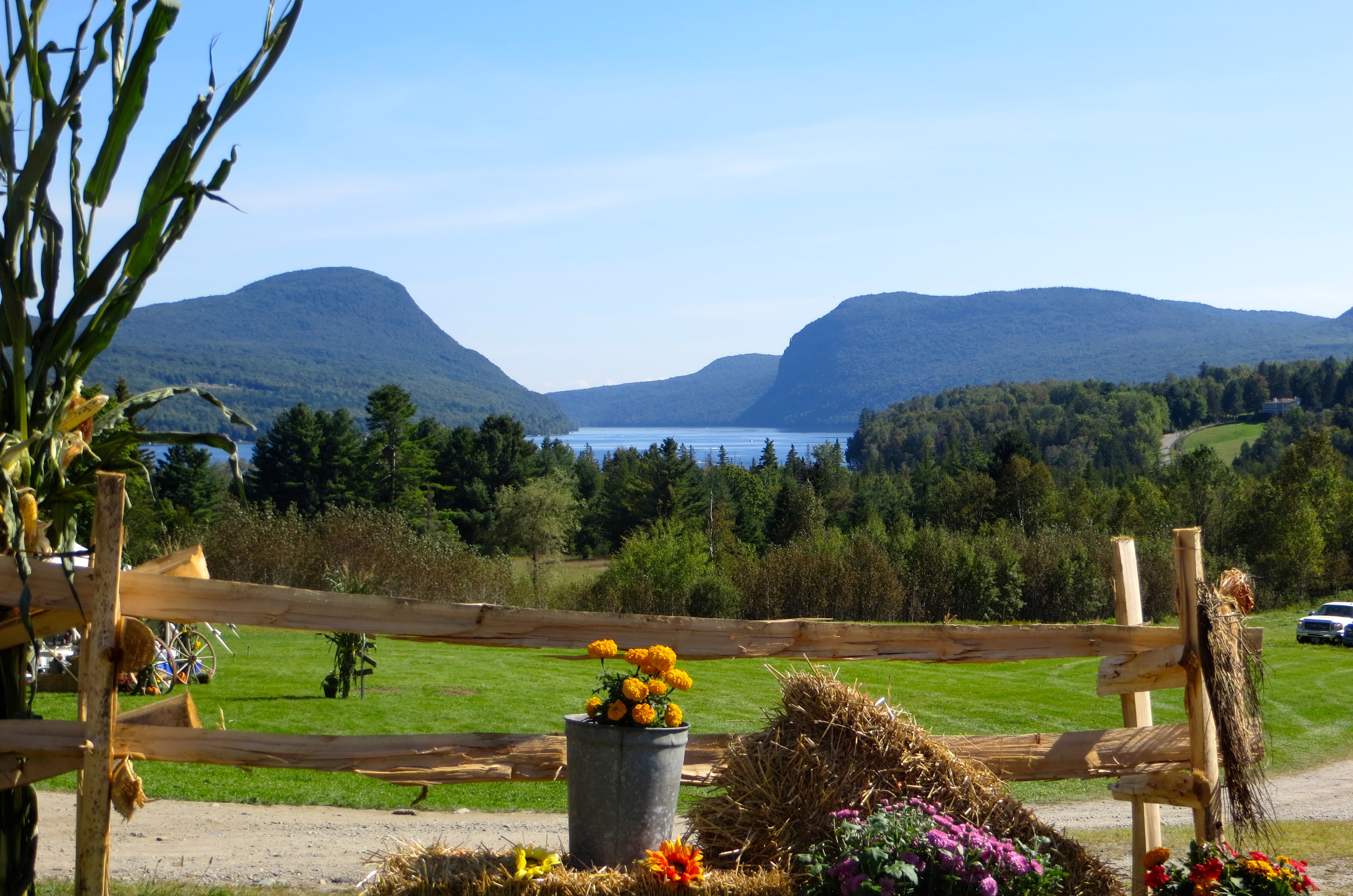 View of Lake Willoughby in Westmore, Vermont, Summer 2015